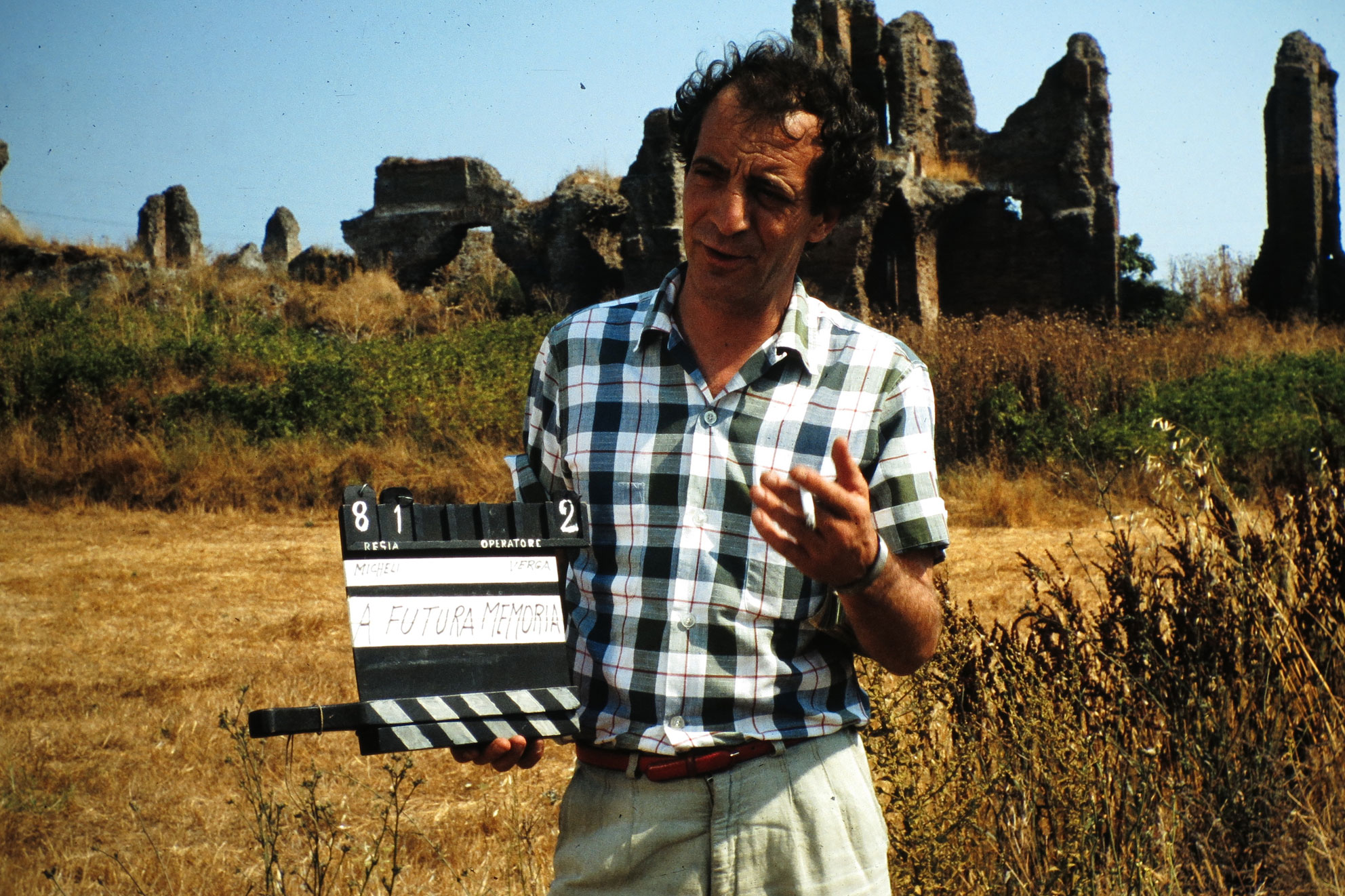 Ivo Barnabò Micheli on the set for the film "A futura memoria. Pier Paolo Pasolini" in the mid-1980s